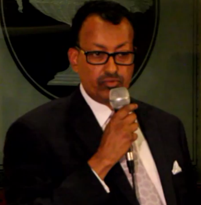 Somali entrepreneur Abdulkadir Ali "Fish", former President of the Somali American Chamber of Commerce.